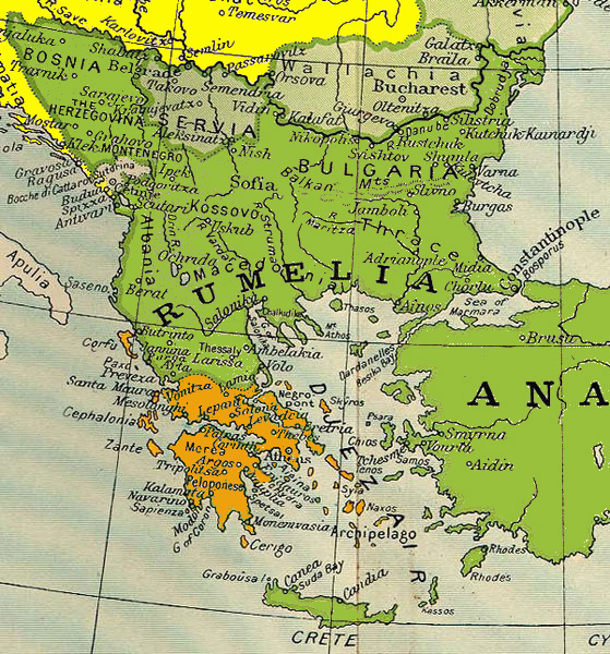 Balkan peninsula between 1840 & 1878